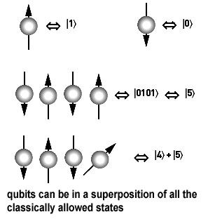 Qubits are made up of controlled particles and the means of control (e.g. devices that trap particles and switch them from one state to another). There are 4 established qubit candidates: ion traps, quantum dots, semiconductor impurities, and superconducting circuits. adapted from "Nanocomputers and Swarm Intelligence" (page 157) ISTE, Waldner, JB (2007), ISBN 2746215160. Reproduced with author's authorization